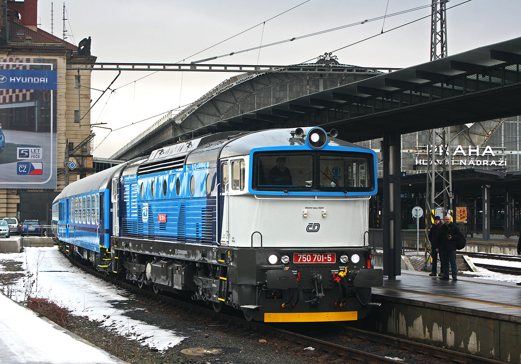 The restored locomotive 750.7 (before 750 - manufacture ČKD Prague) by CZ Loko, a.s. company